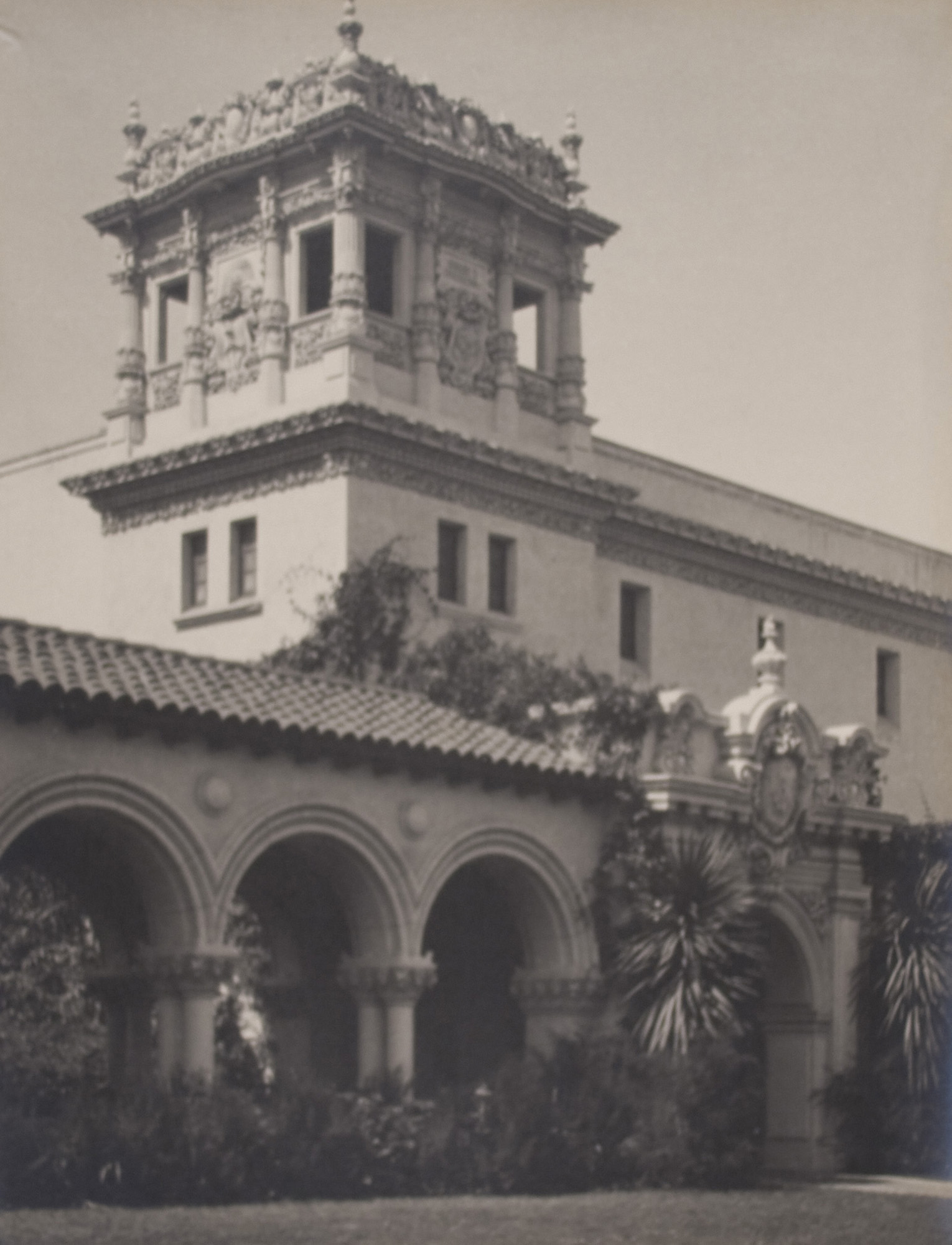 Book Title: Panama-California Exposition, San Diego, 1915, portfolio (38 gelatin silver prints) Artist: Francis Bruguiere Artist Bio: American, 1879 - 1945 Creation Date: 1915 Process: gelatin silver print Credit Line: Gift of Wilson Centre for Photography Accession Number: 2003.002.016